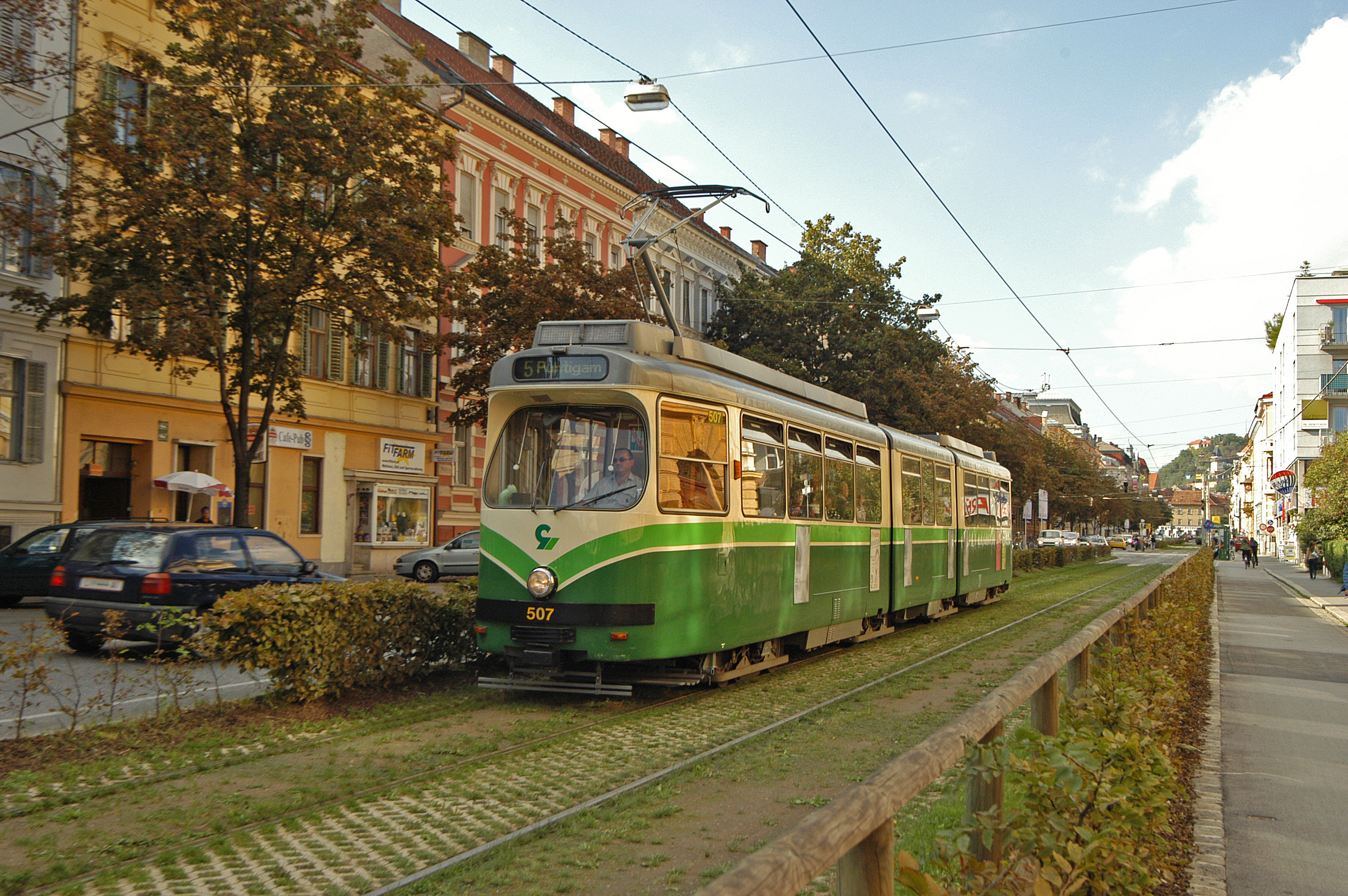 Tramway in Grazt at Conrad v. Hötzendorfstraße